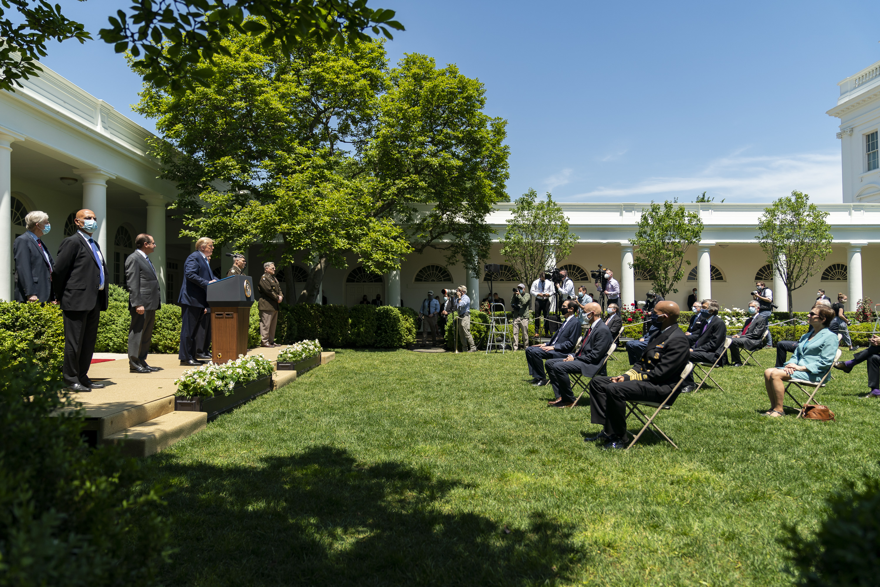 President Donald J. Trump delivers an update on vaccine development and answers questions from members of the press Thursday, May 15, 2020, in the Rose Garden of the White House. (Official White House Phot by Shealah Craighead)